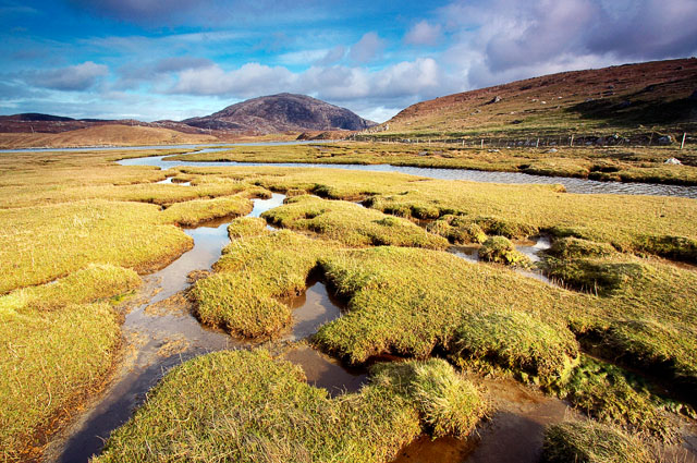 Machair east of Uig Bay. Various lochs drain into Uig Bay cutting through the machair as they go. In the distance is Suaineabhal